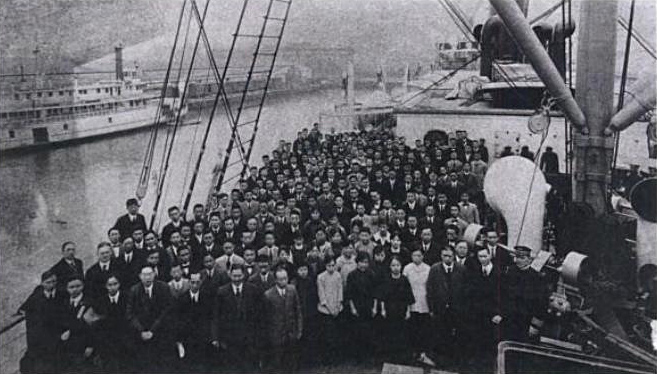 The students to USA from Tsinghua School, in 1918, at Shanghai